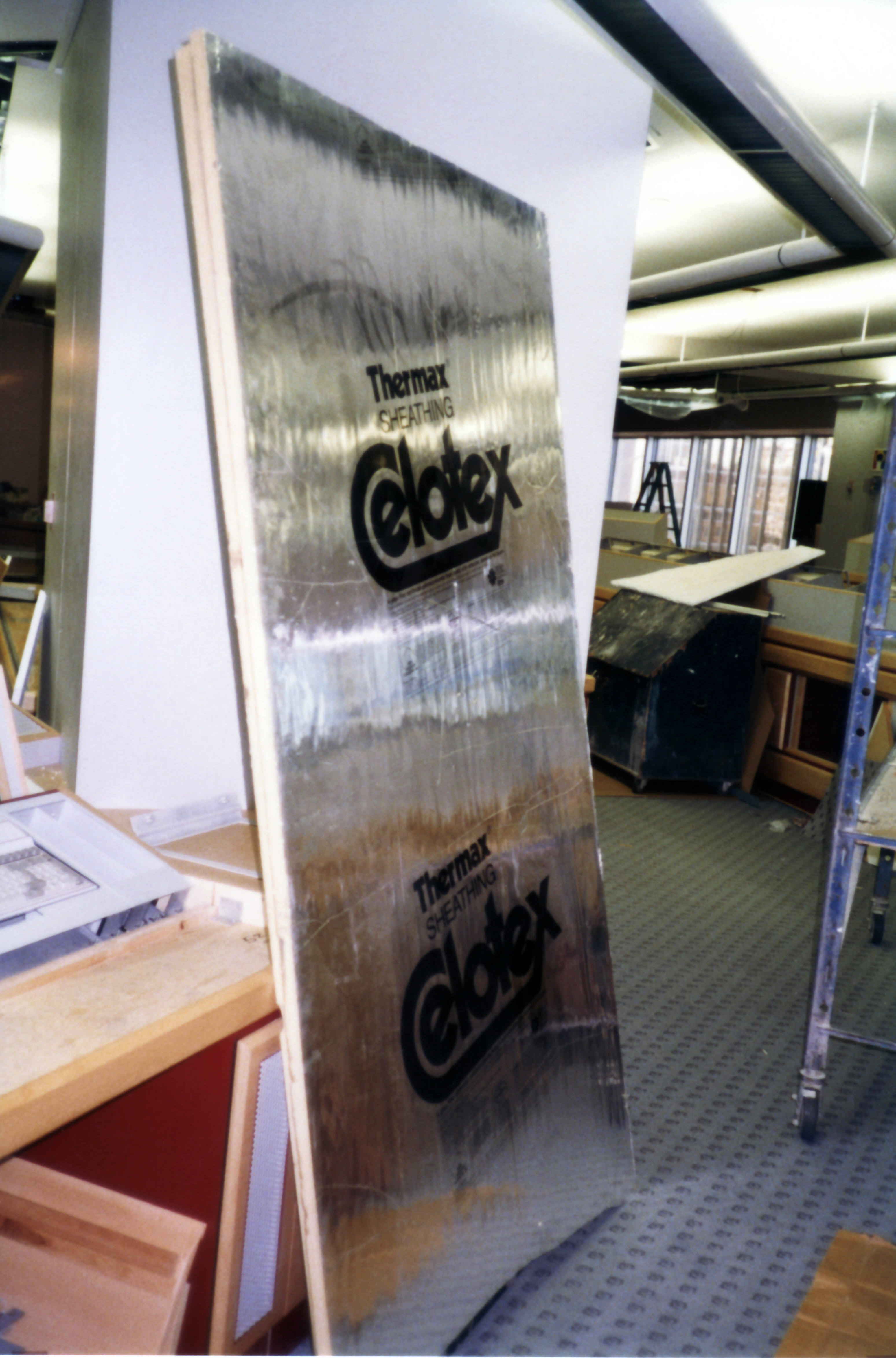 Foamed plastic sheets used in building construction.